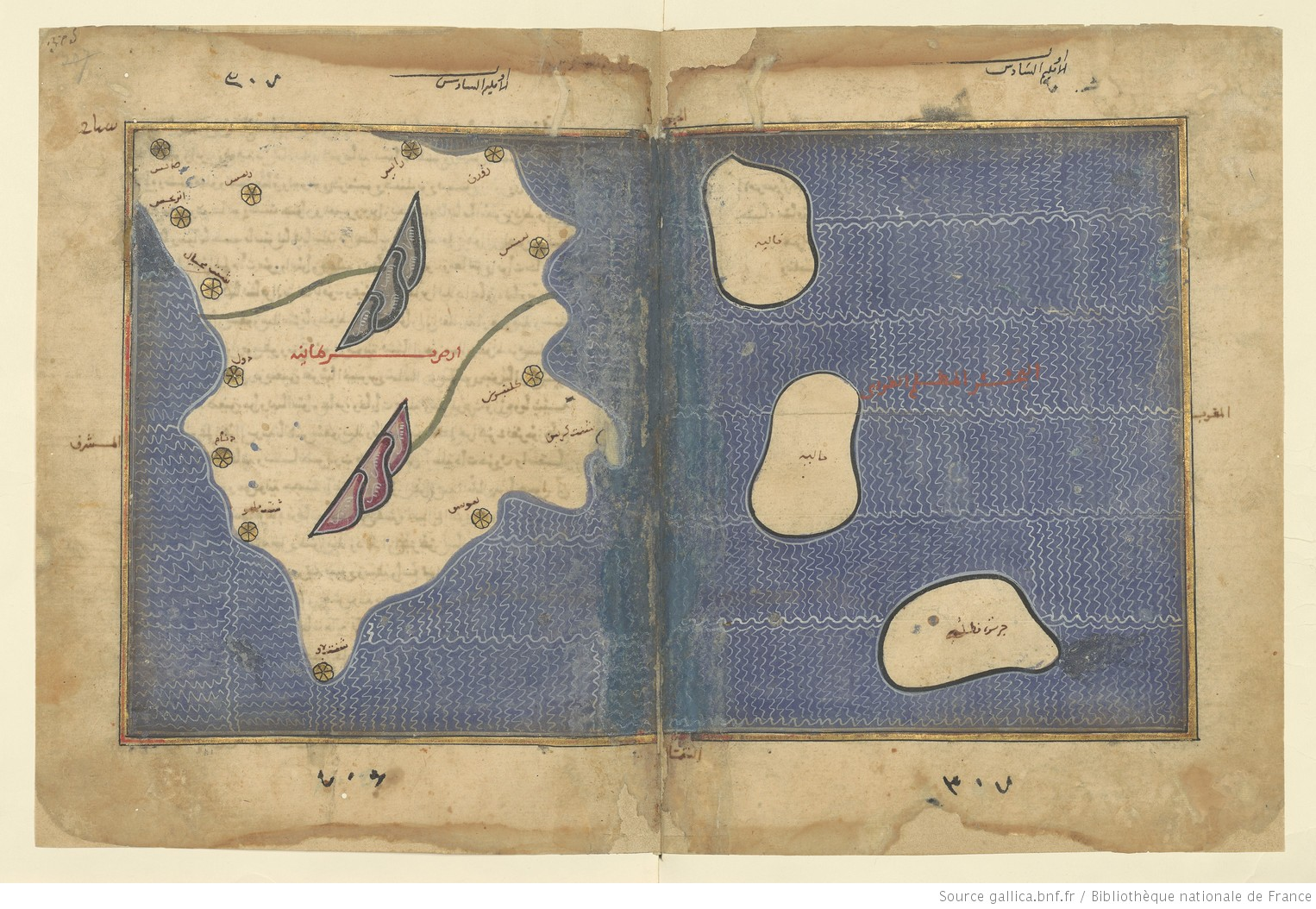 1250 or 1325 copy of a map of Britanny by Arab geographer Al Idrissi (extract from the Tabula Rogeriana, 1154). The map, East oriented, shows several cities (Dinan, Dol, Saint-Malo) in Arabic.